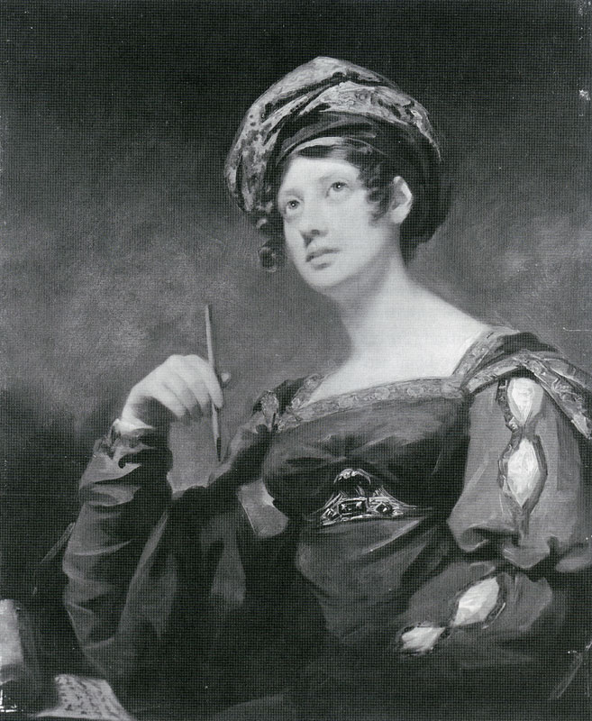 Eliza Mary Campbell, Lady Gordon Cumming by Henry Raeburn, between 1815 and 1823